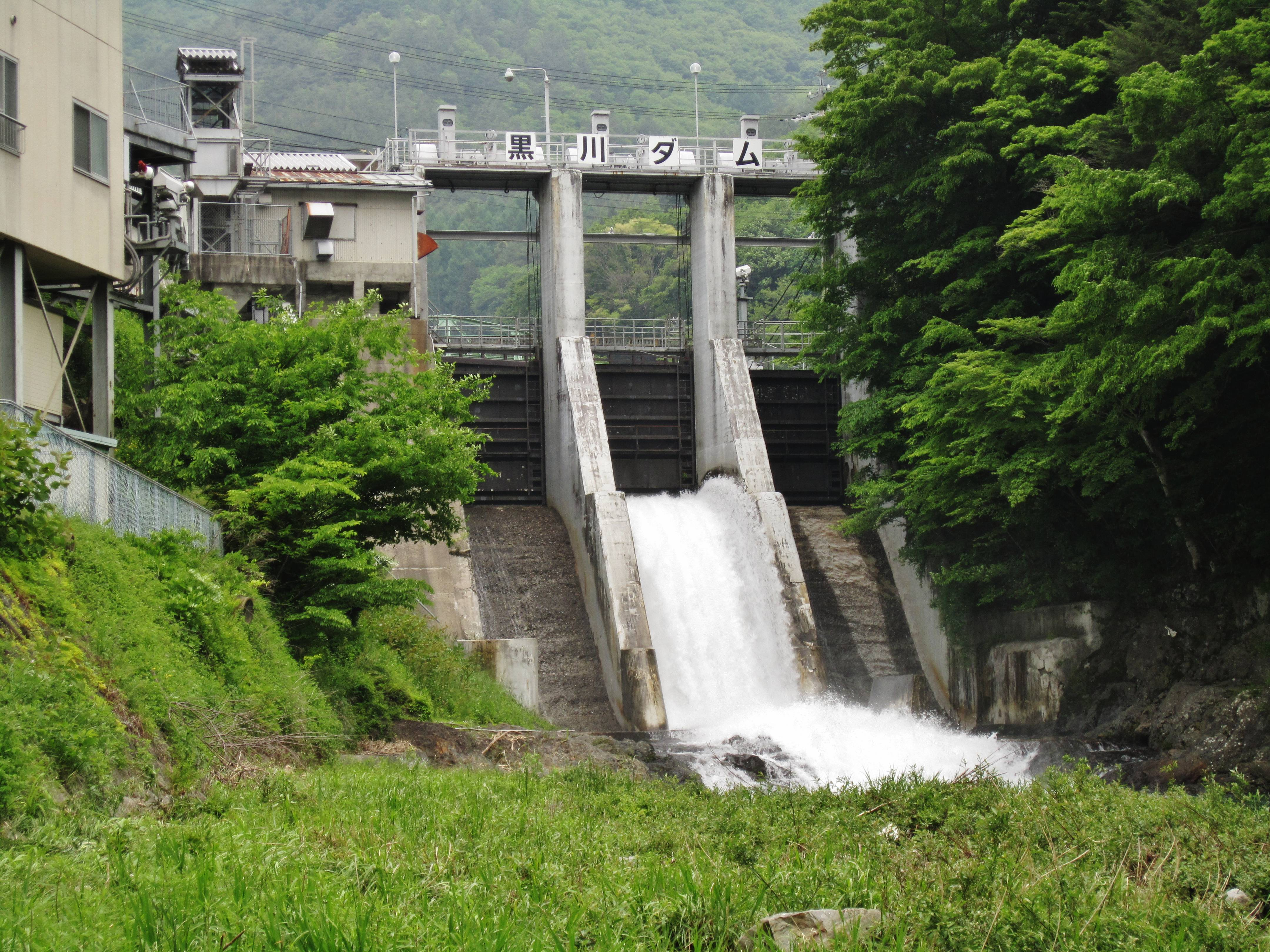 Kurokawa Dam.